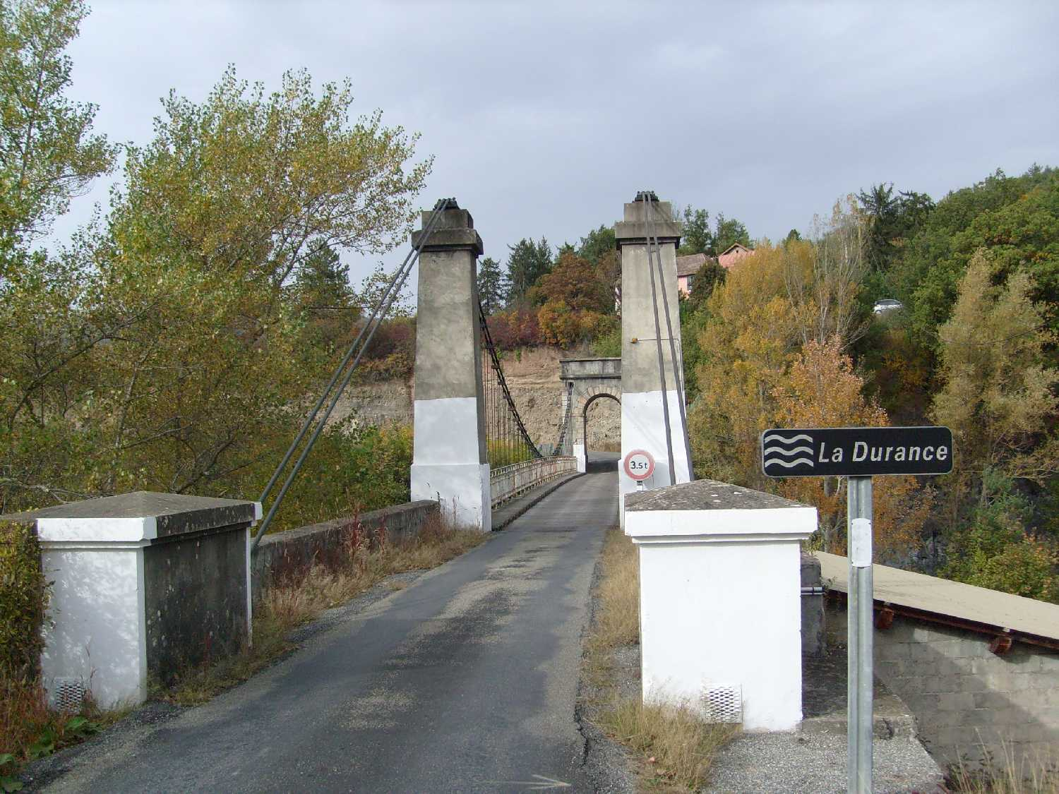 Archidiacre bridge across Durance river( Venterol, Alpes de Hautes Provence,France)